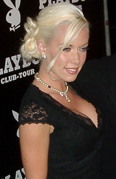 Hugh Hefner with his two girlfriends Kendra Wilkinson and Bridget Marquardt at his birthday party in Munich (2006).